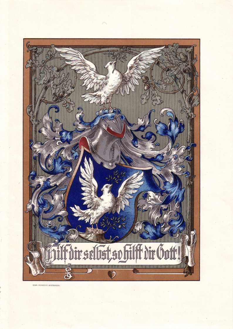 Coat of arms of the Simon Heinrich Sack Foundation as it appears in Das Silberne Buch from 1900.